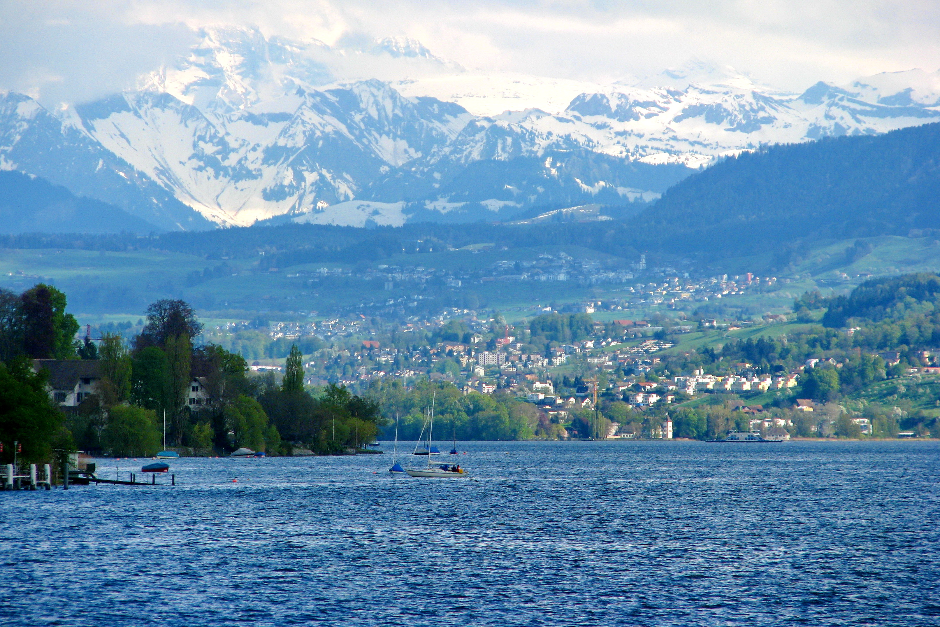 Zürichsee (Lake Zürich) : Au peninsula at Au (ZH), Wädenswil, southeasternly Zimmerberg plateu and Alps in the background.